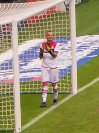 FC Crotone's goalkeeper Alex Cordaz during the Serie A game at the San Siro versus AC Milan, on the 4th of December 2016.